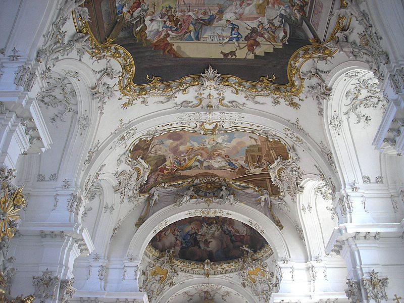 Minster St. Mary at Diessen (Upper Bavaria, Germany). Fresco at the choir arch by Johann Georg Bergmüller, 1736. Foundation of the Monastery St. Georgen by Rathardus in 815.